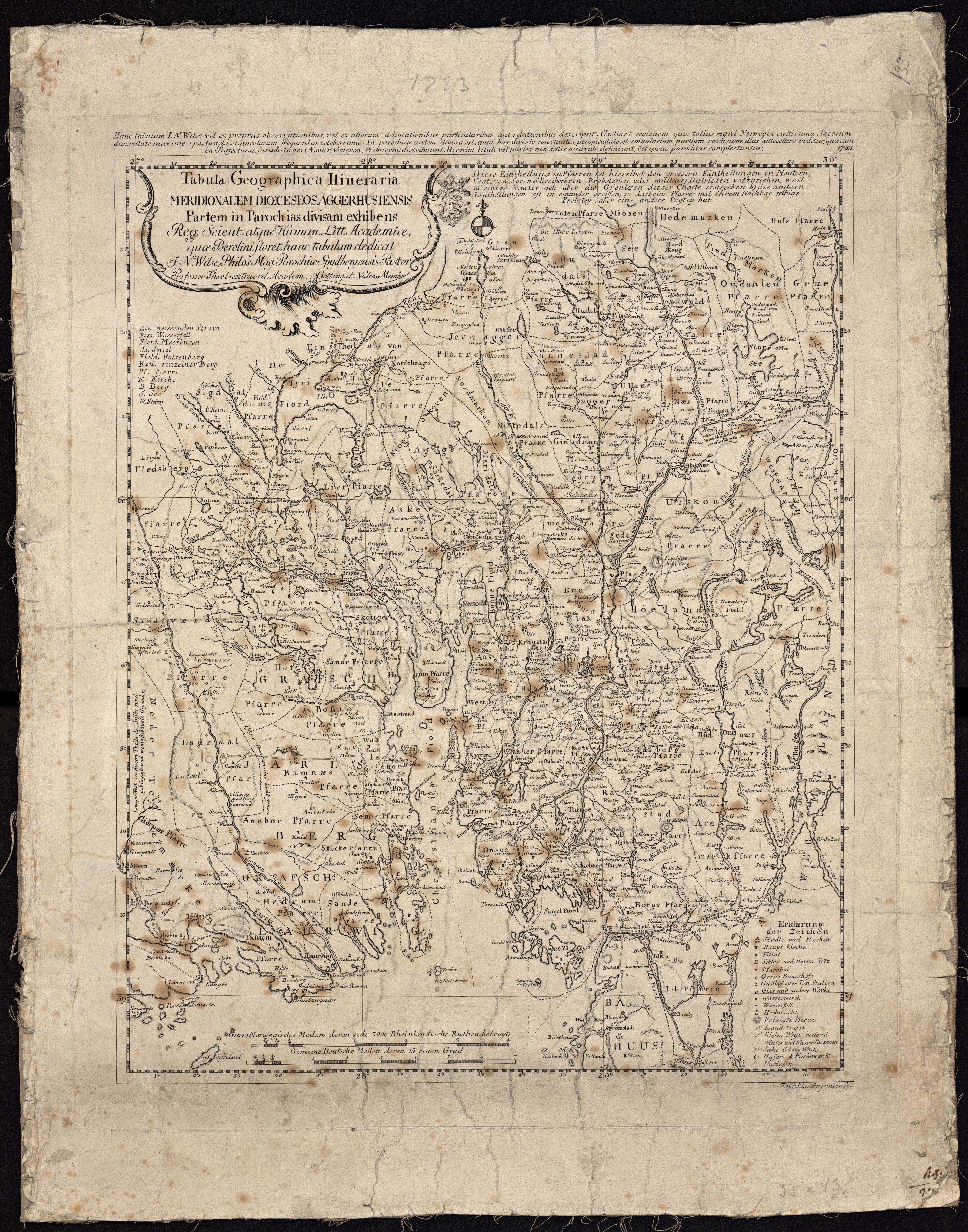 Tittel / Title: Tabula geographica itineraria meridionalem dioeceseos Aggerhusiensis Beskrivelse / Description: Trykket kart over Akershus stift Dato / Date: 1783 Kartograf / Cartographer: Jacob Nicolai Wilse Digital kopi av original / Digital copy of original: no-nb_krt_00749 Eier / Owner Institution: Nasjonalbiblioteket / National Library of Norway Lenke / Link: Bildesignatur / Image Number: Kart 133 eks 1